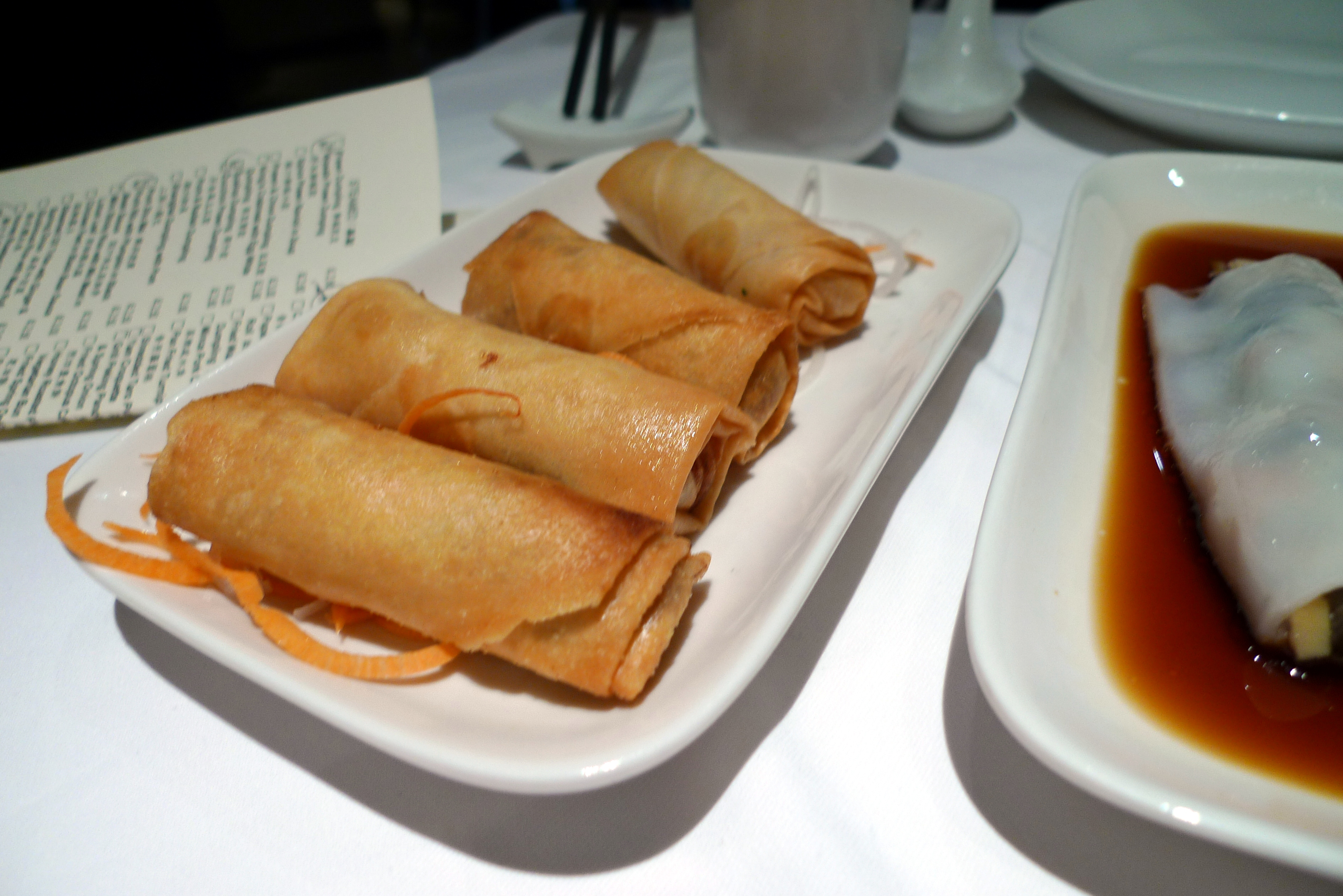 The shredded taro and crispy prawn rolls. At Pearl Liang, Sheldon Square.